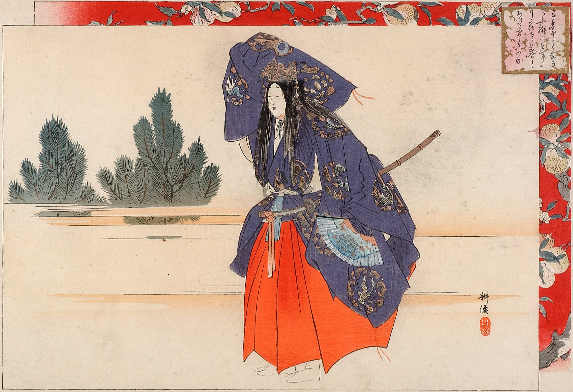 Scene from "Szene aus Seiôbo" Nô-drama